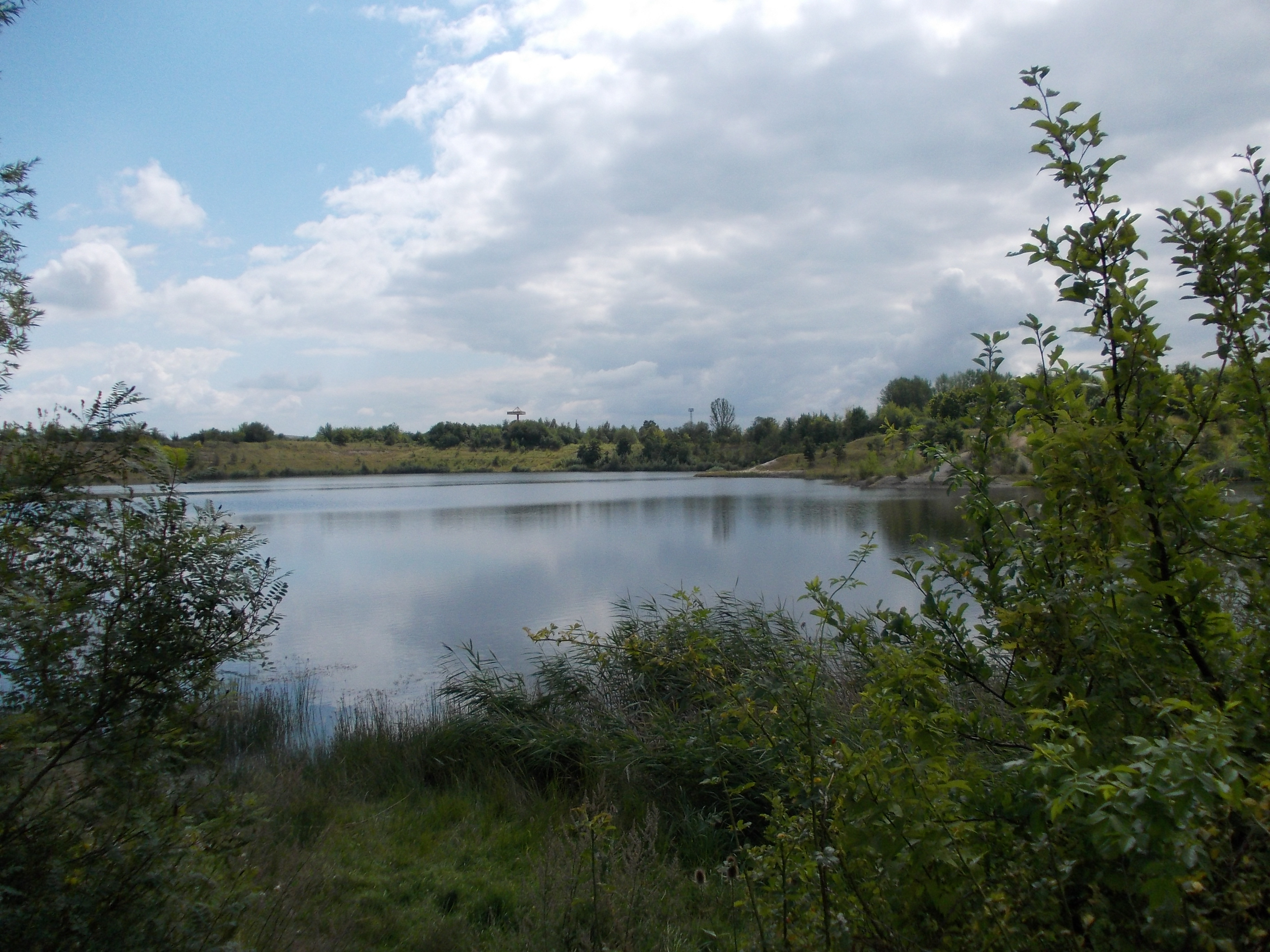 Halle-Neustadt Quarry Lake, a former limestone quarry in Halle/Saale